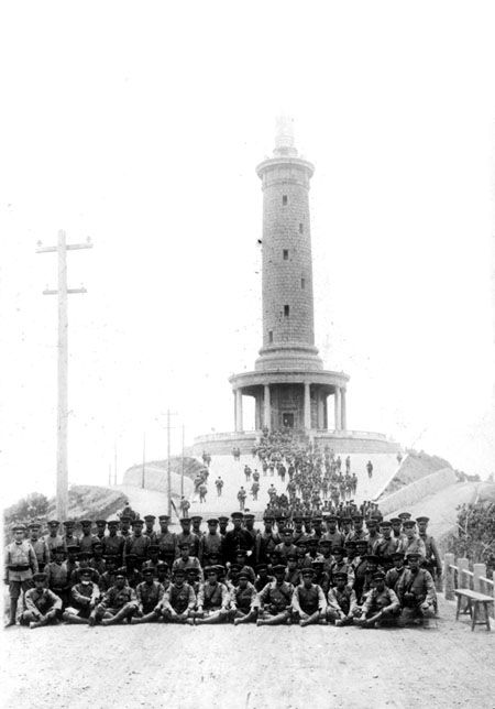 Japanese soldiers at the monument on Bayushan Mountain, Dalian